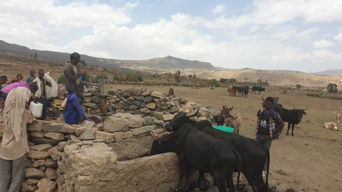 Zerfenti water point